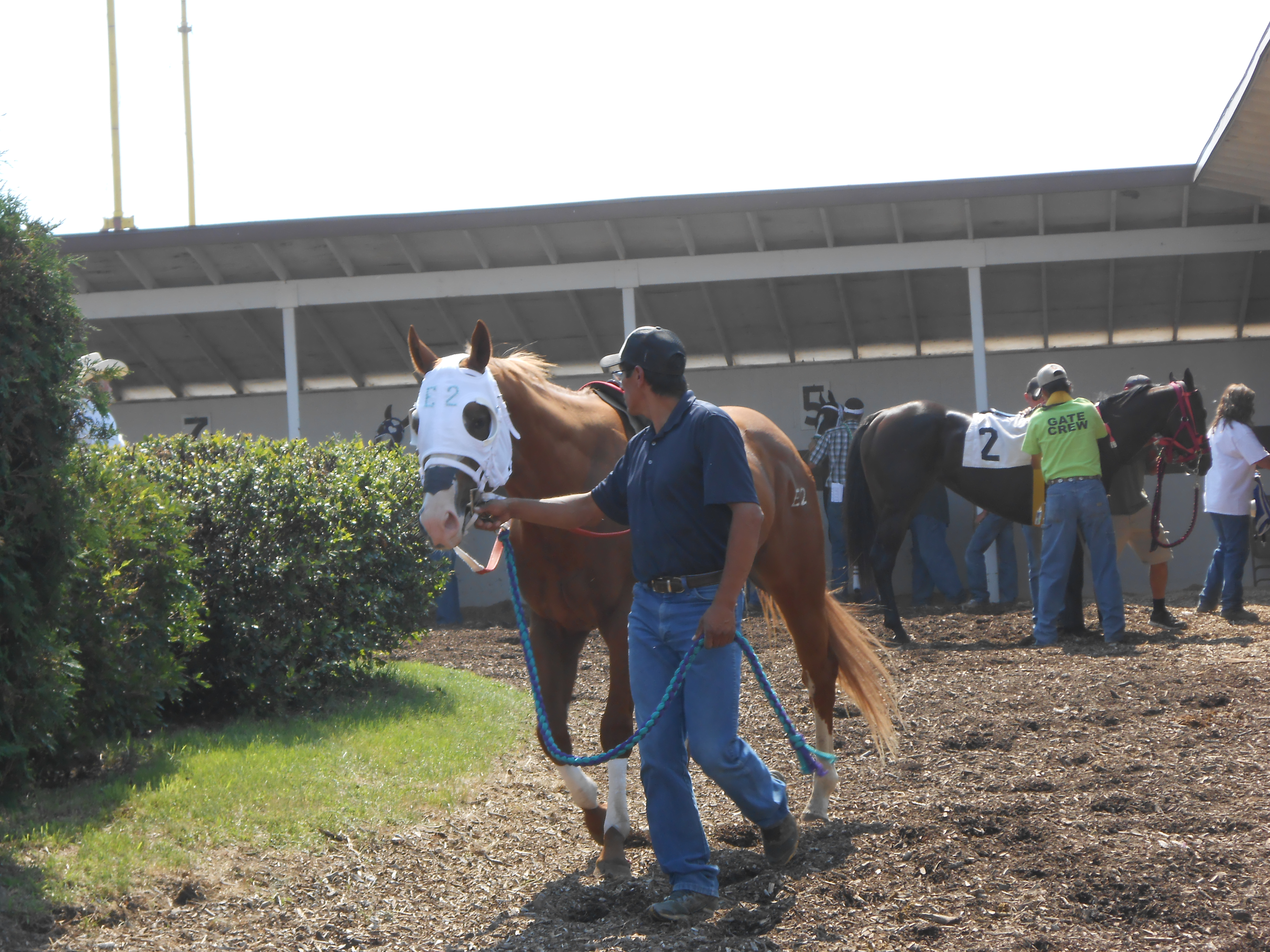 Racehorse in paddock (Quarter Horse) at Montana State Fair horse race meet, 2013. Horse is wearing a blinker hood on its head